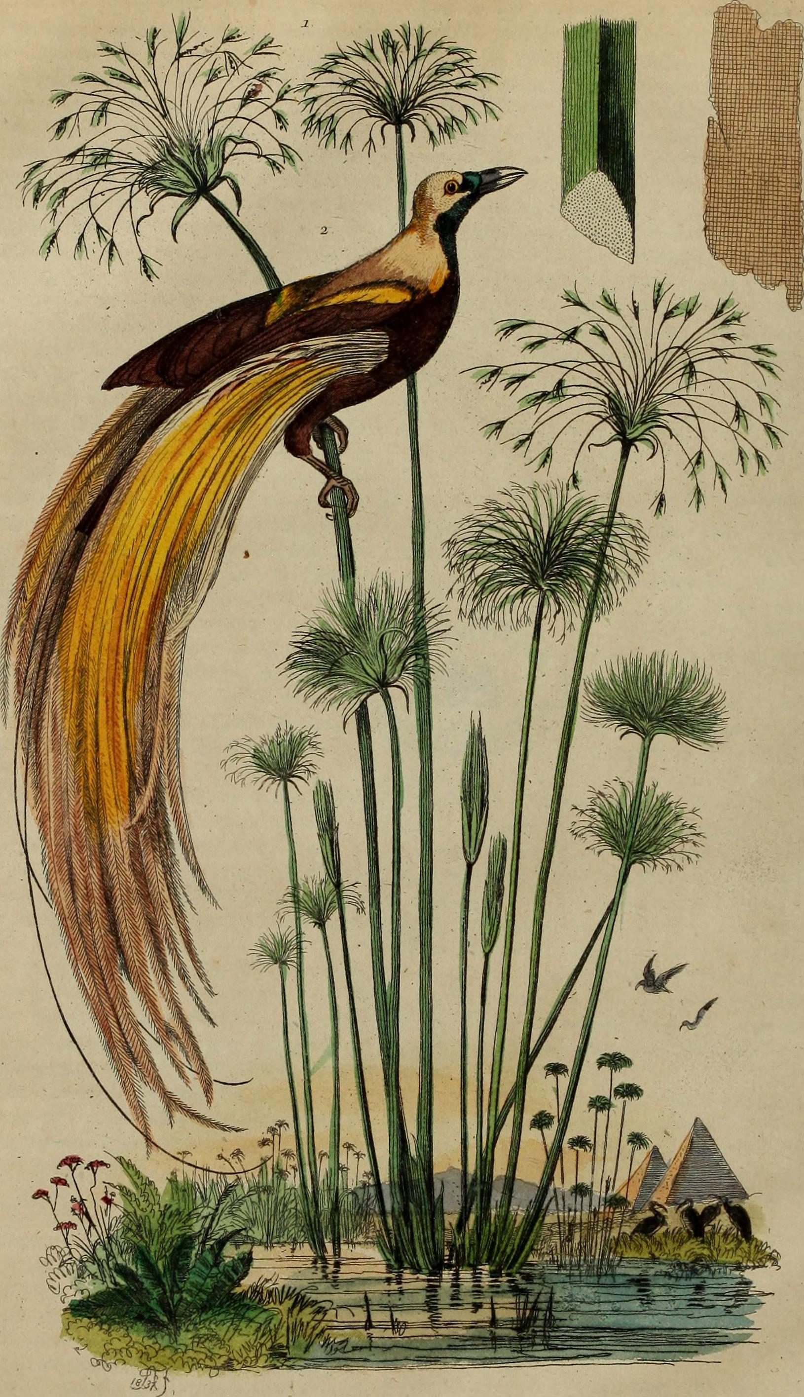 Title: Dictionnaire pittoresque d'histoire naturelle et des phénomènes de la nature Year: 1838 (1830s) Authors: Guérin-Méneville, F.-E. (Félix-Edouard) Subjects: Publisher: Paris Text Appearing Before Image: PI 400 j b Text Appearing After Image: j japvrus Paradis ï t.,.,;.., .!„■ PAPO PAPY Fig. 4. Aile inférieure de la même espèce. — a. Costale. —b, sous-costale. — c. médiane. e. Anale. — f. Axillaire. Celtedernière nest antre chose que la sixième nervule de la figureprécédente, qui if i naît directement de la base. La cellule dis-coïdalc est ouverte. — 1 2. 3 4. 5. f ervules. Fig. 5. Ailes imaginaires de lépidoptère , pour lexplicationdes dessins que forment les couleurs. — a. Fascie ou bandearticulée. — b. Fascie macnlaire. — b, b. b. b. Fascies trans-versales de grandeurs diverses. — c. c. Fascie commune. —d. Fascie lancéolée. — i. OEil composé. — fc. Pupille. Lescercles qui lentourent sont les iris. — l- Iris imparfait enforme de croissant, que quelques auteurs nomment sourcil(superciliuiu). — m. OEil simple. — n. OEil simple à pupille encroissant. o. OEil à pupille lancéolée.— p OEil bi-pupillé.— g. OEil à deux pupilles de grandeur différente. — r. OEildoubl